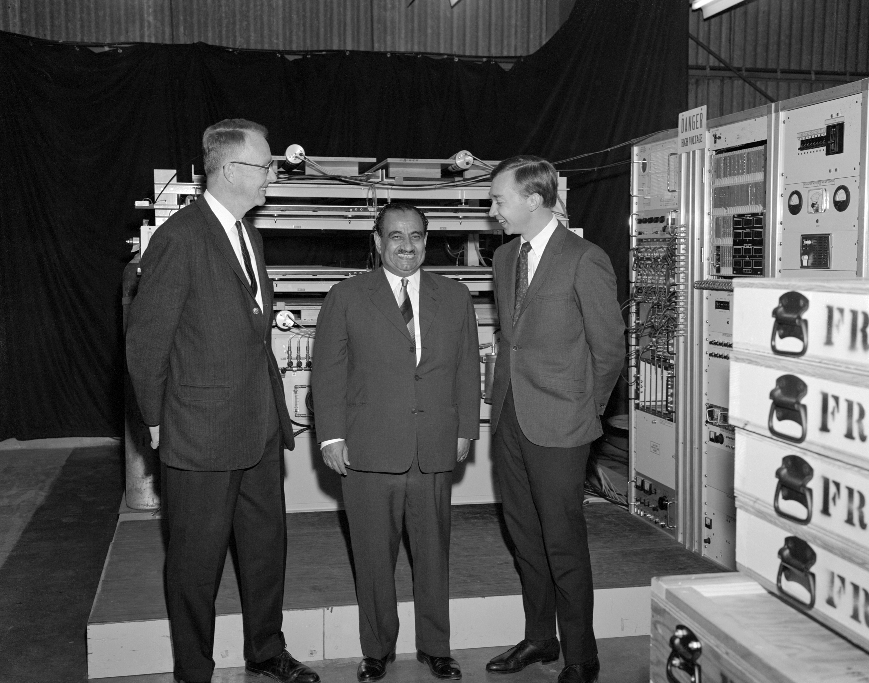 Luis Alvarez, Ahmed Fakhry, Jerry Anderson with the equipment for the Pyramid Project